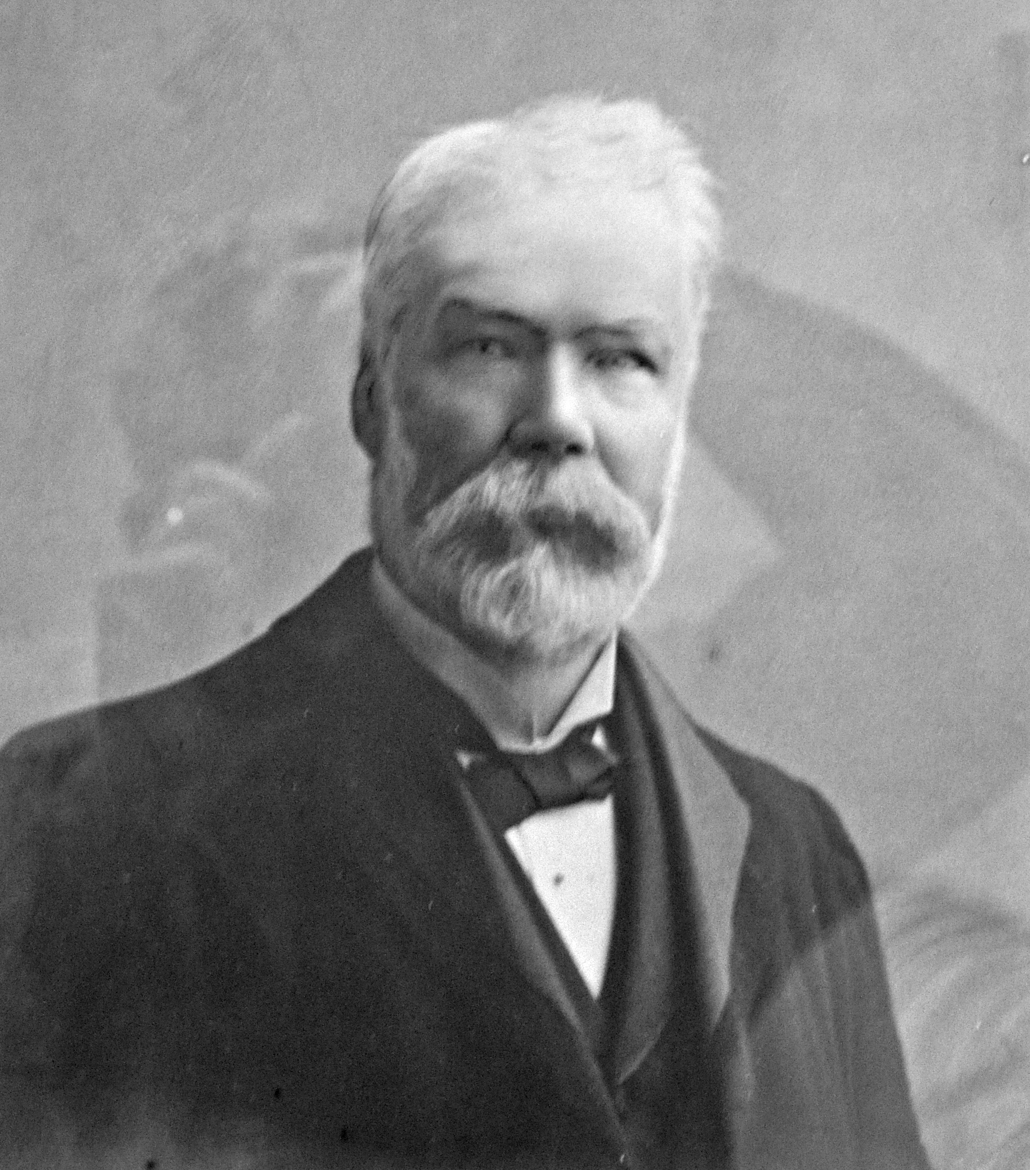 James Robertson founder of Golden Shred circa 1890